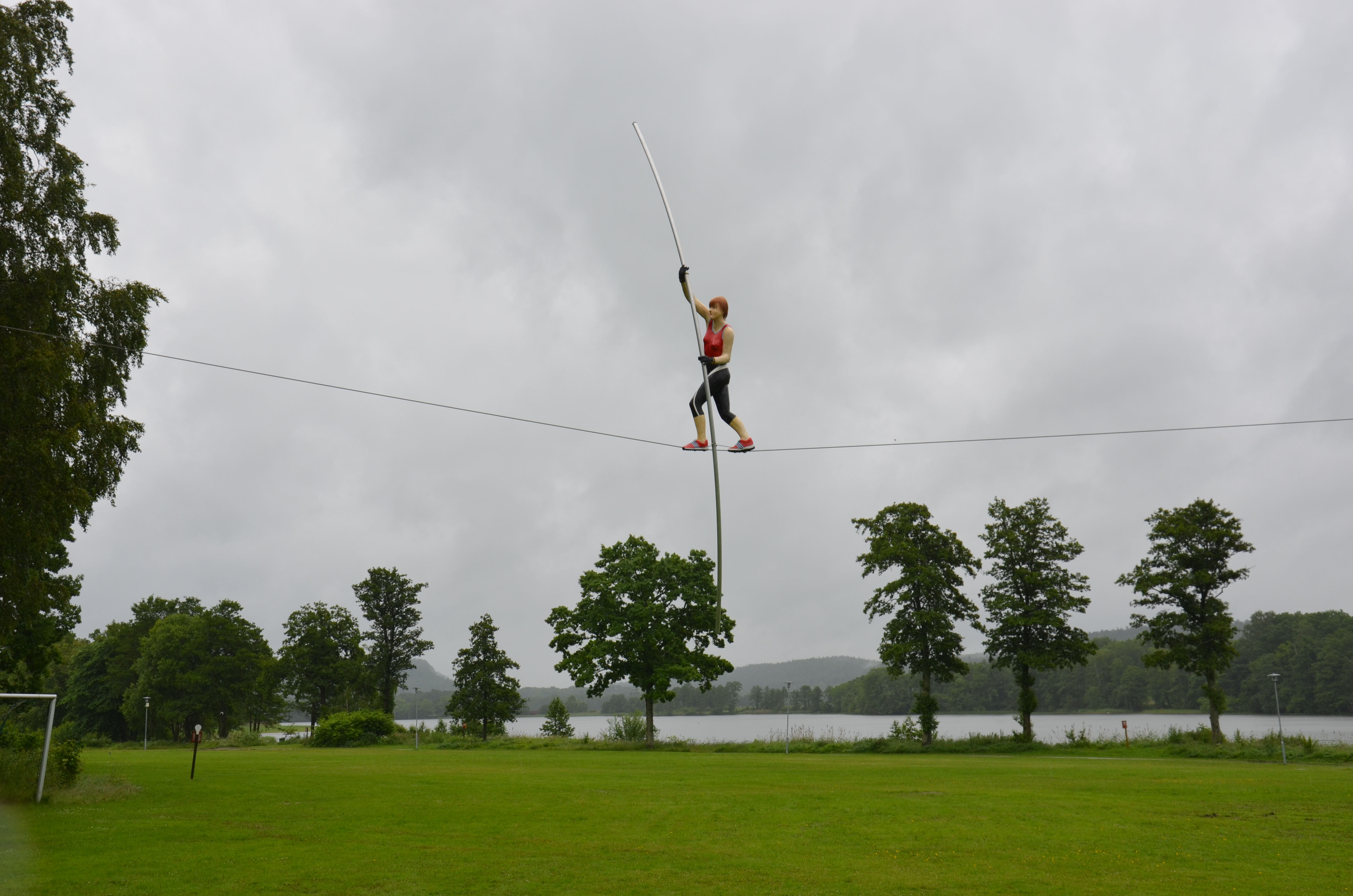 Eric Langert' s Allt är möjligt (Everything is possible), displayed at Skulptur i Pilane 2011, erected at Restad gård